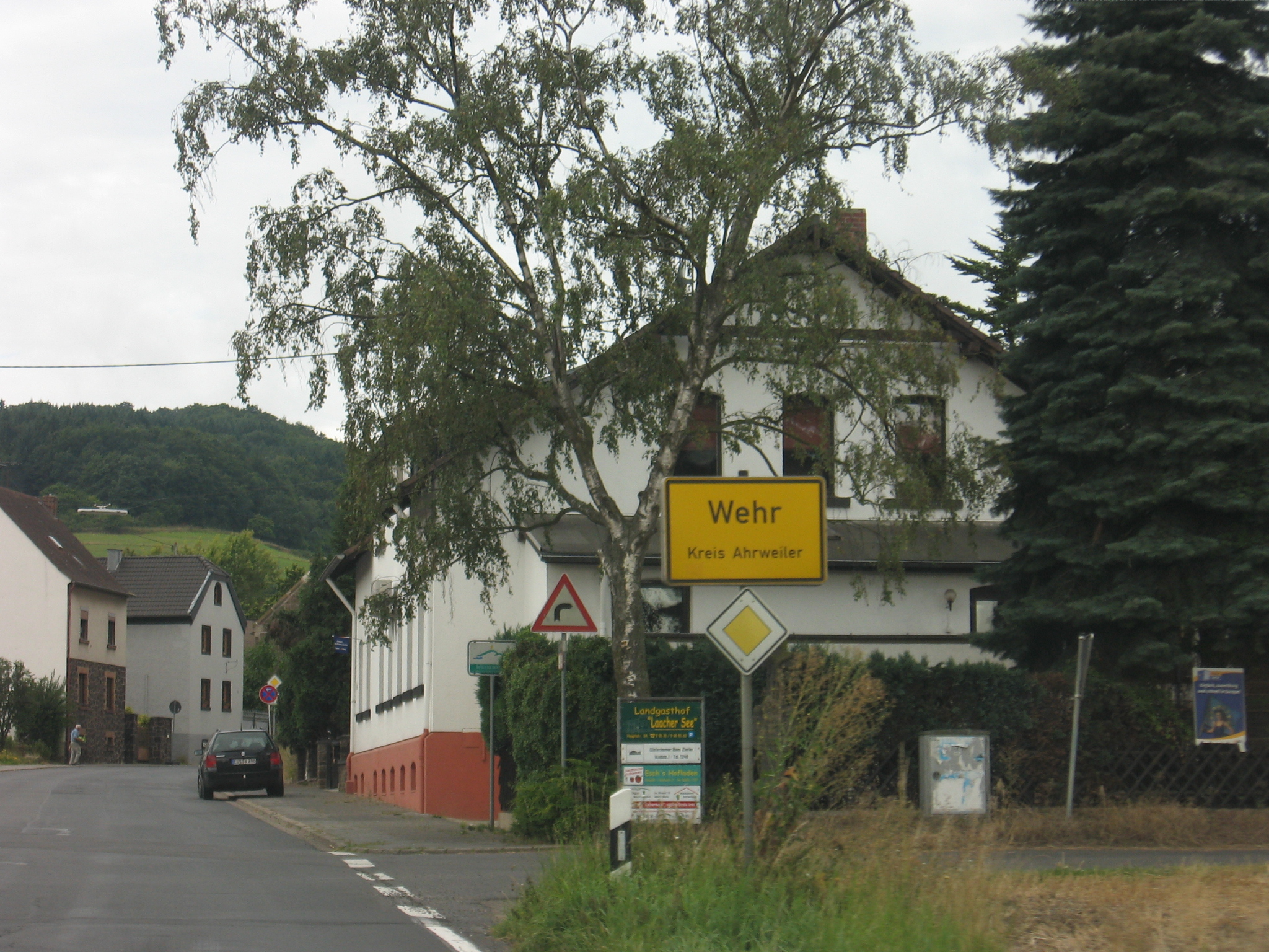 Wehr (Eifel)